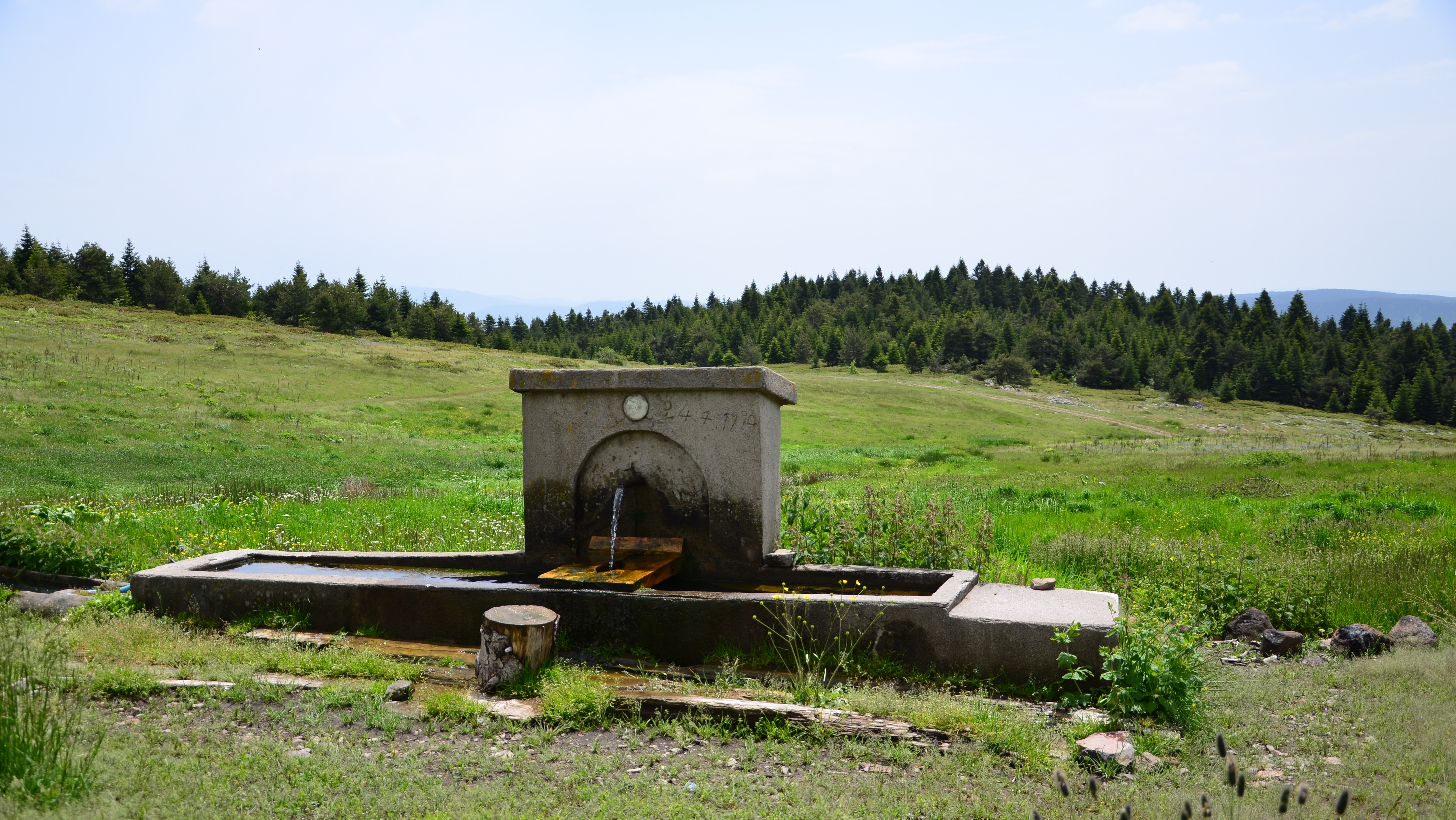 Çoban çeşmesi